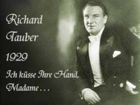 Richard Tauber in German movie "Ich küsse Ihre Hand, Madame". 1929 year.